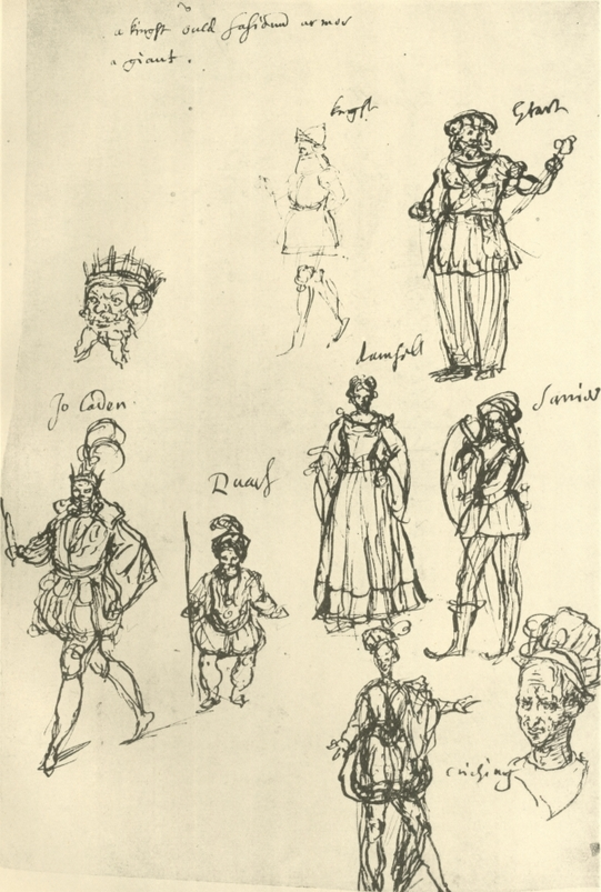 Inigo Jones, characters for Sir William Davenant's "Britannia triumphans"